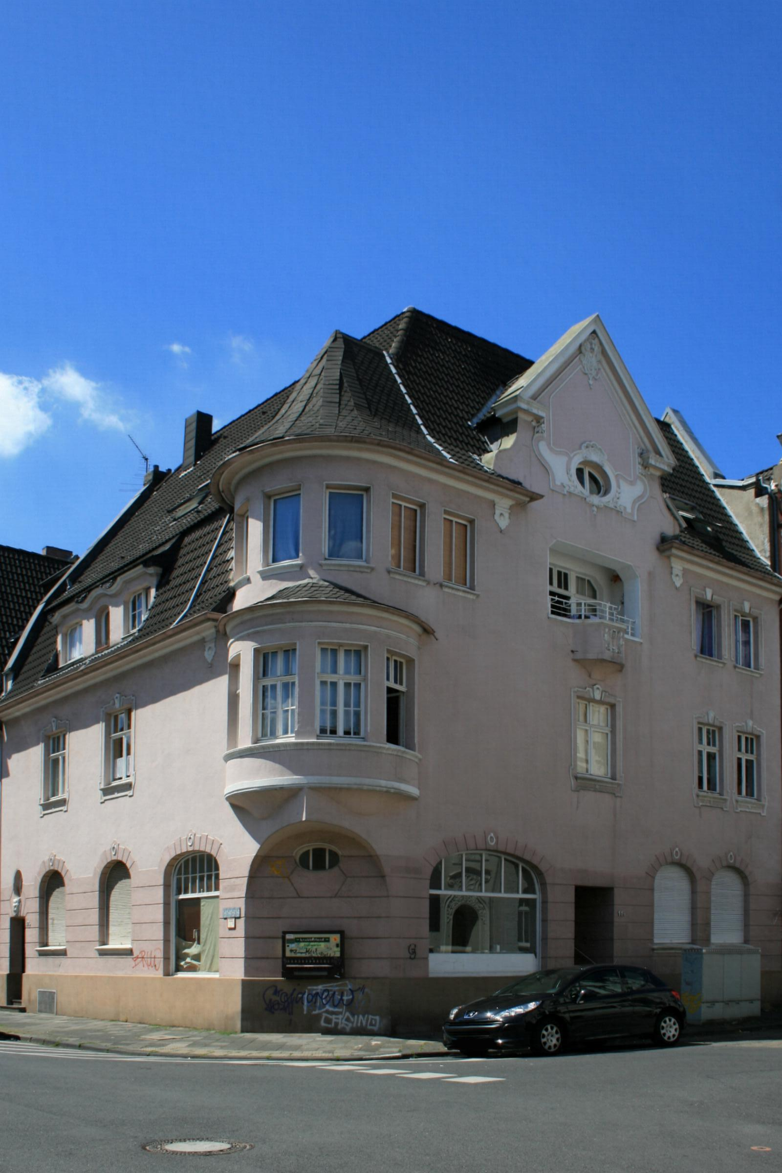 Cultural heritage monument No. G 005 in Mönchengladbach